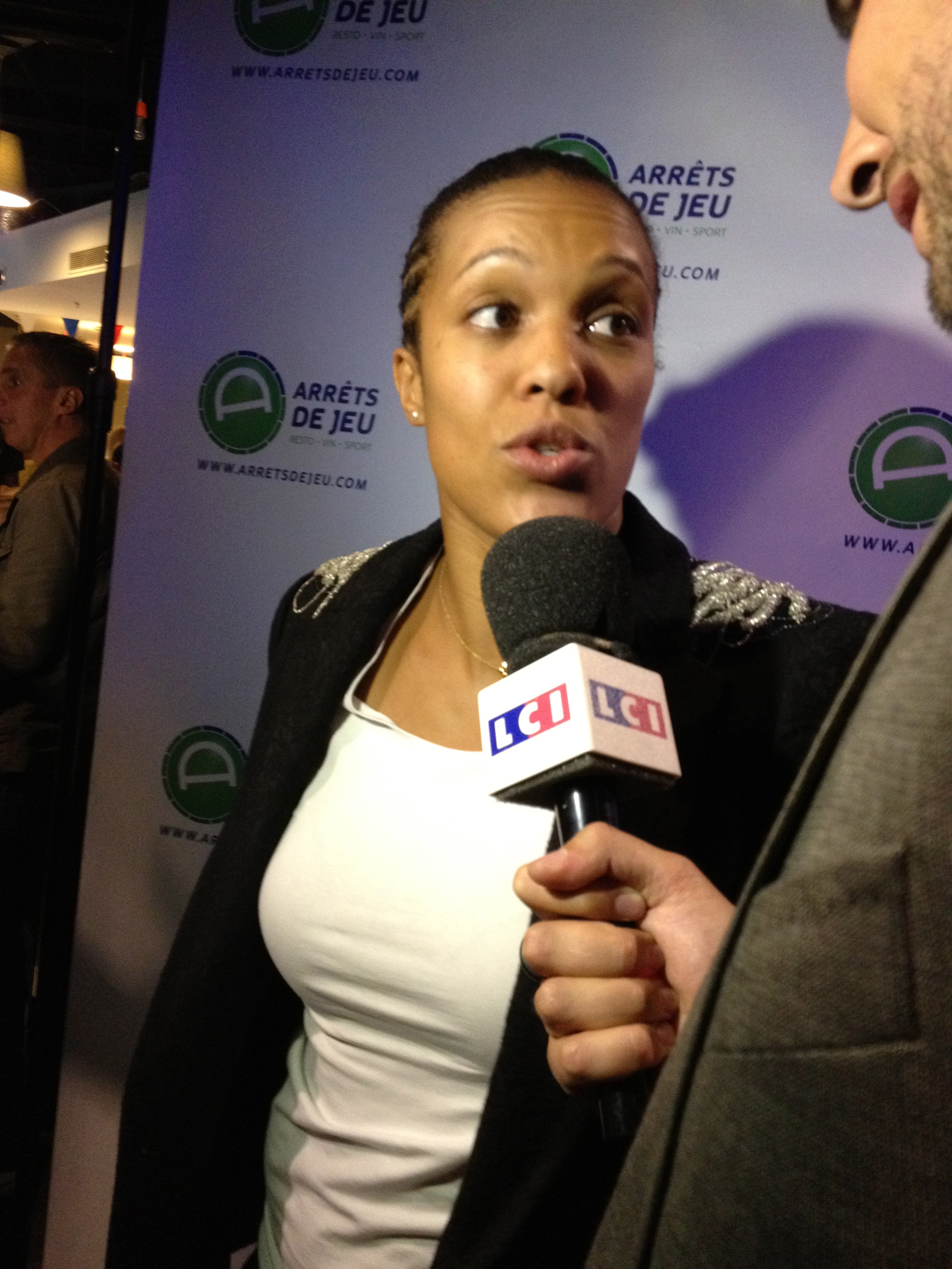 French judo olympic champion Lucie Décosse, september 2012.